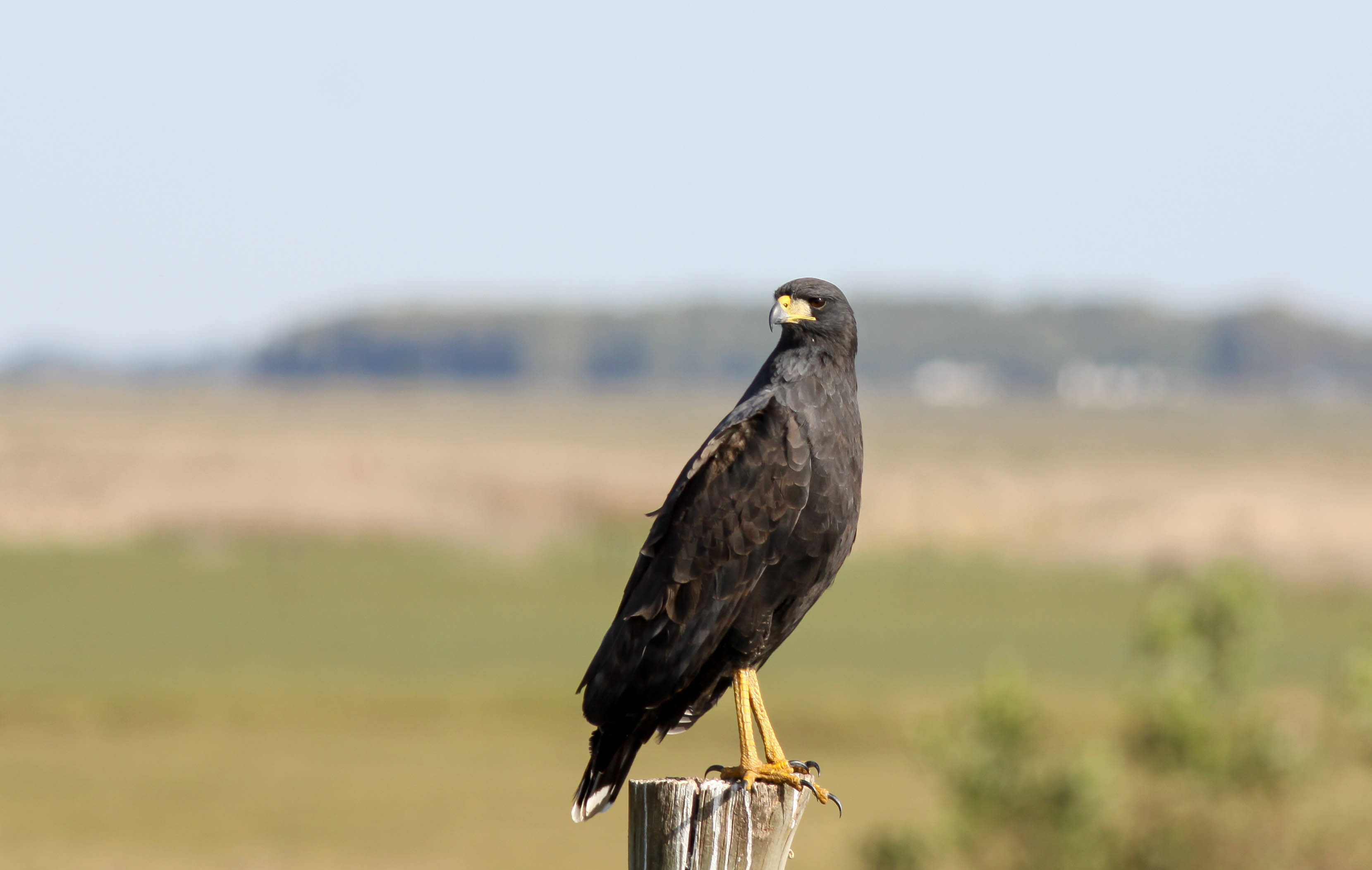 Great Black Hawk